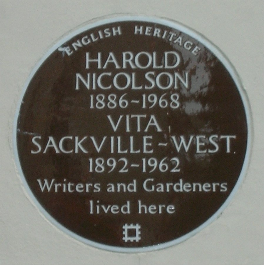 A brown "Blue plaque" to Vita Sackville-West and Harold Nicolson on their house at Mozart Terrace, Ebury Street, London SW1, England. Photographed by me 29 September 2006. Oosoom